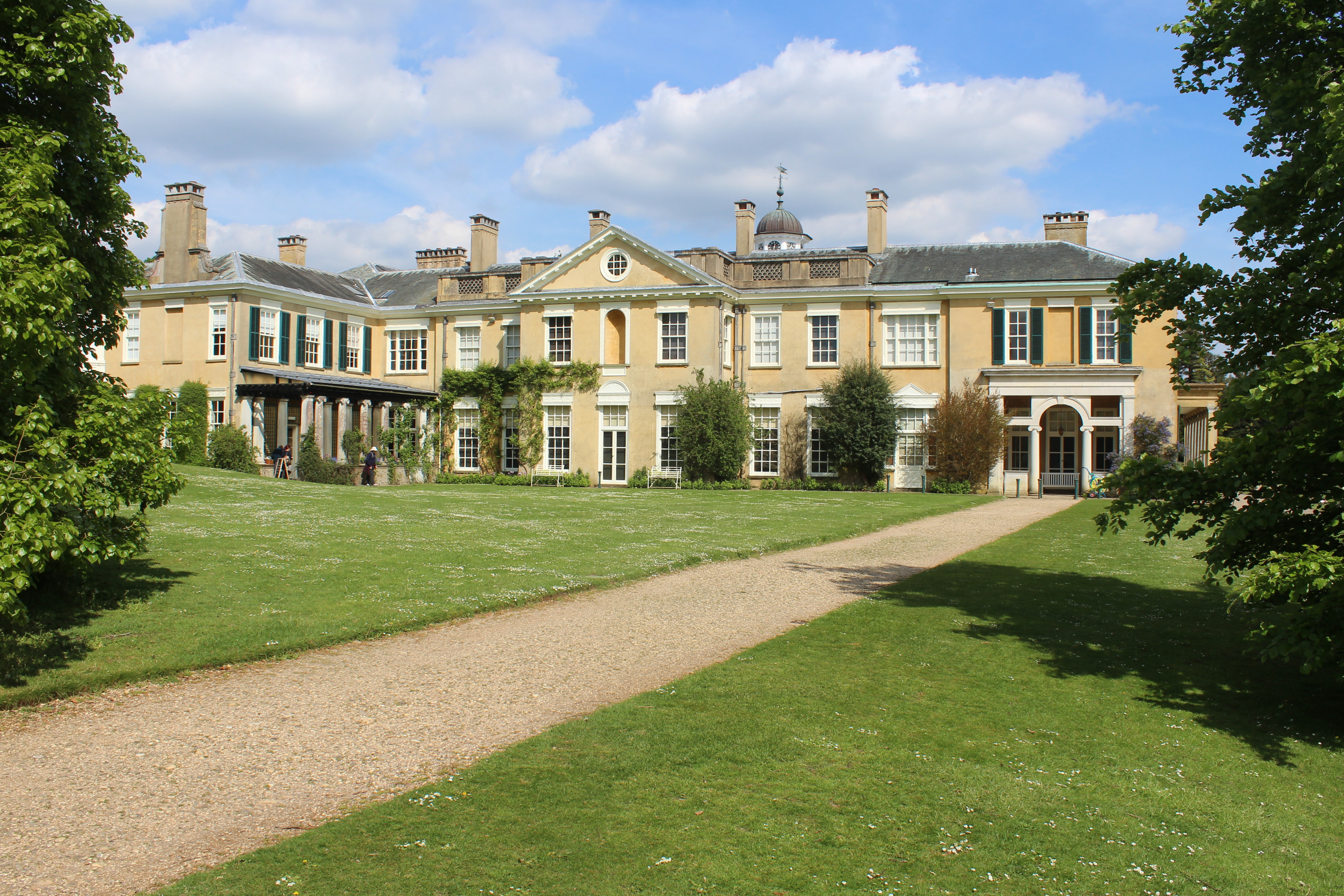 West facade of Polesdon Lacey, a national Trust property in Surrey. The property, extensively remodelled in 1906 by Margaret Grenville, a well-known Edwardian hostess, was bequeathed to the National Trust in 1942.